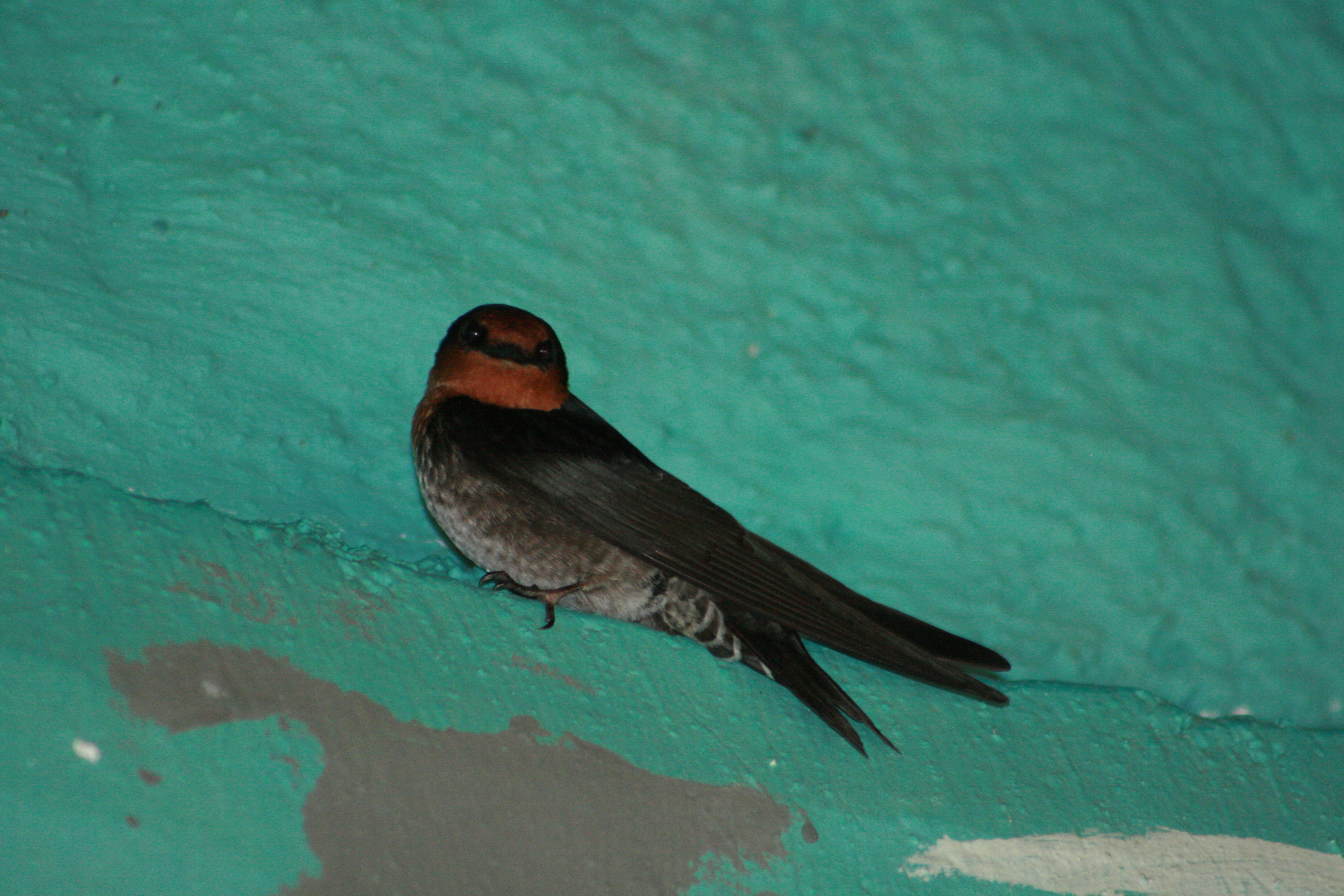 Hill swallow (Hirundo domicola) from anaimalai hills_4